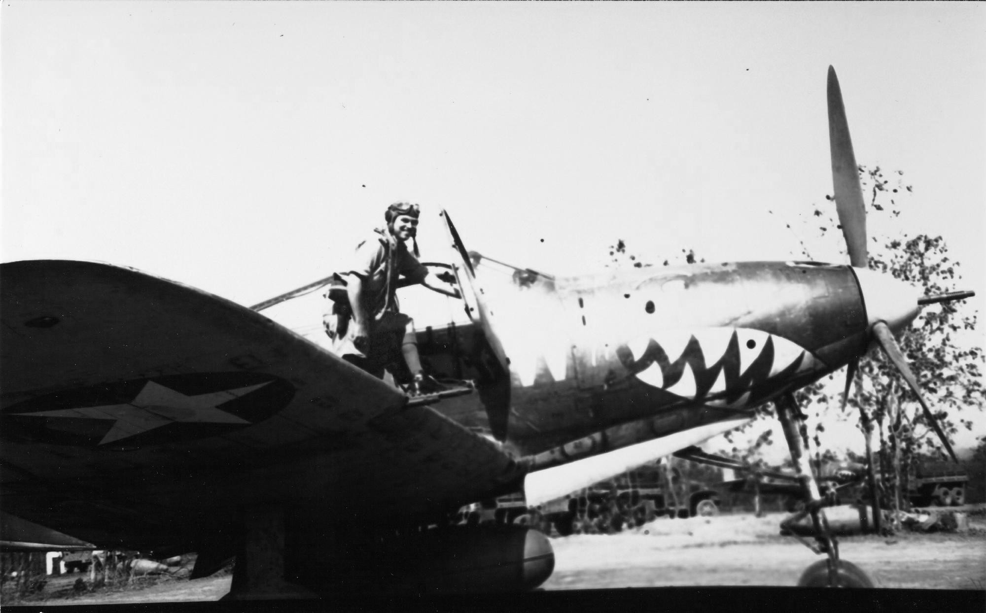 USAAF Bell P-400 (P-39) Airacobra (80th Fighter Squadron "Headhunters," 8th FG)